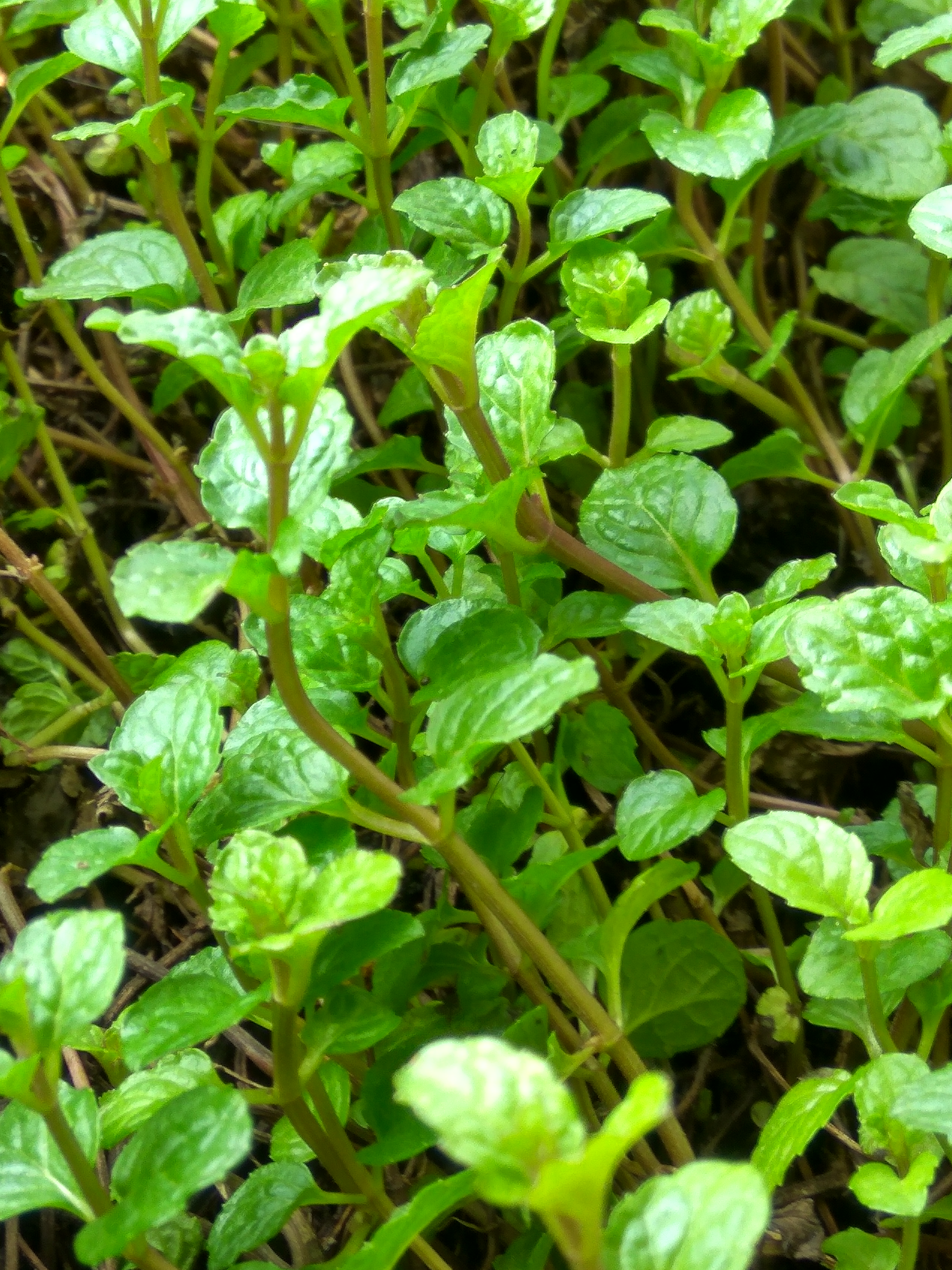 Spearmint